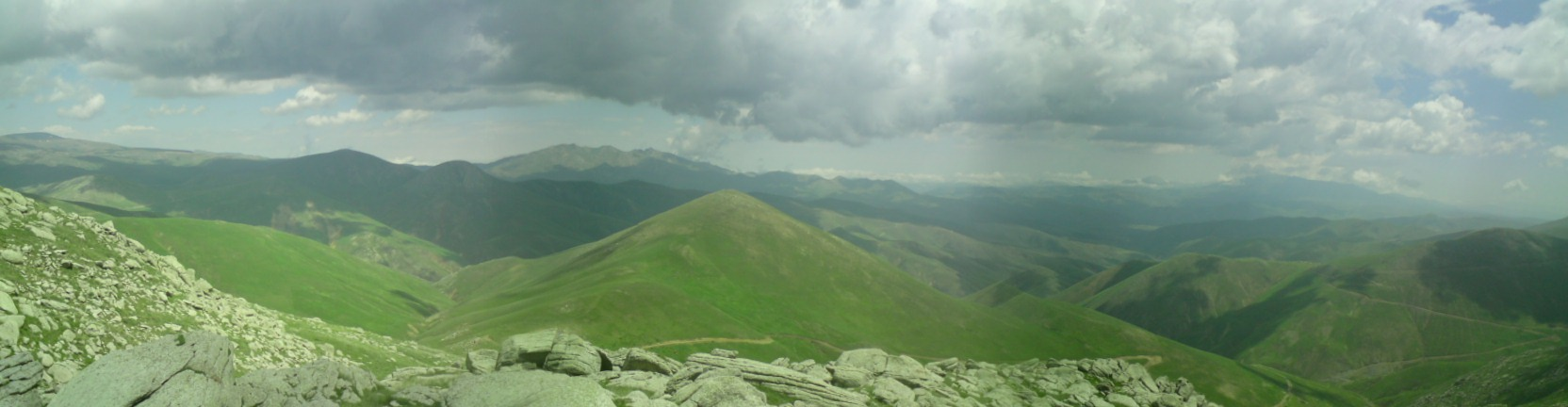 Panoramic view from the Samadia village mountains